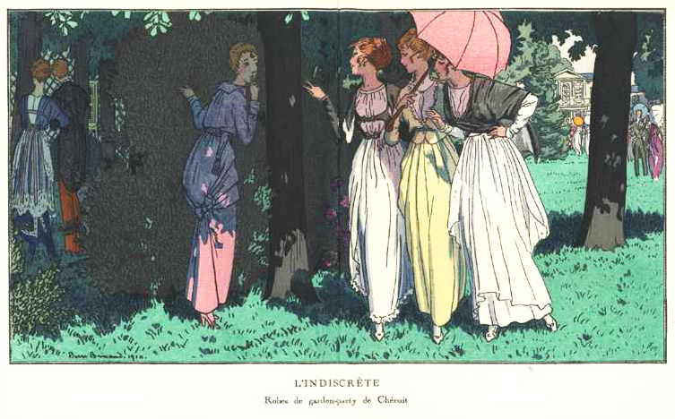 Fashion by Louise Chéruit - garden party dress, illustration by Pierre Brissaud, published in La Gazette du Bon-Ton, 1914